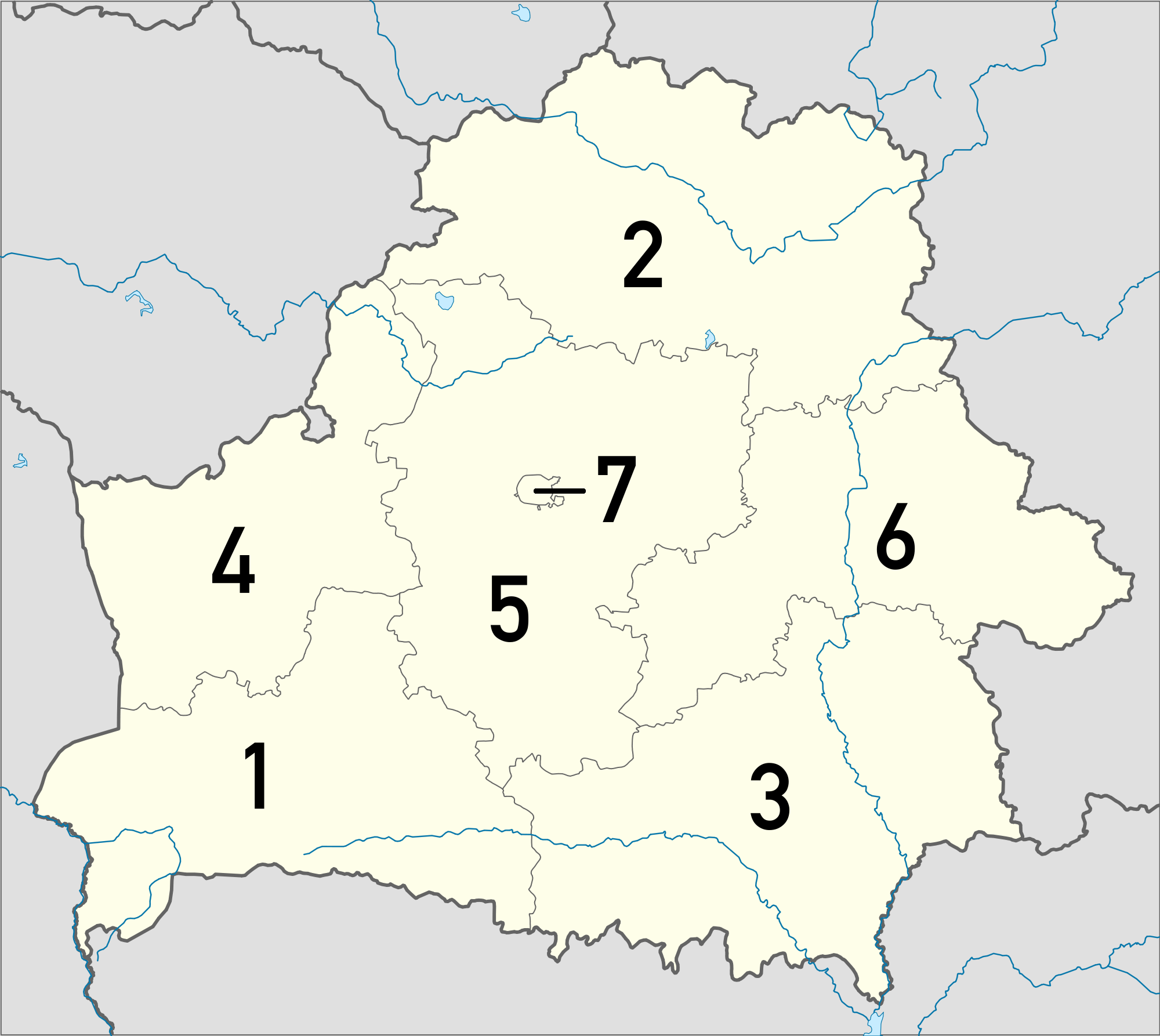 Map with region codes of the license plates of Belarus Equirectangular projection, N/S stretching 170 %. Geographic limits of the map: * N: 56.4° N * S: 51.1° N * W: 22.9° E * E: 33.0° E